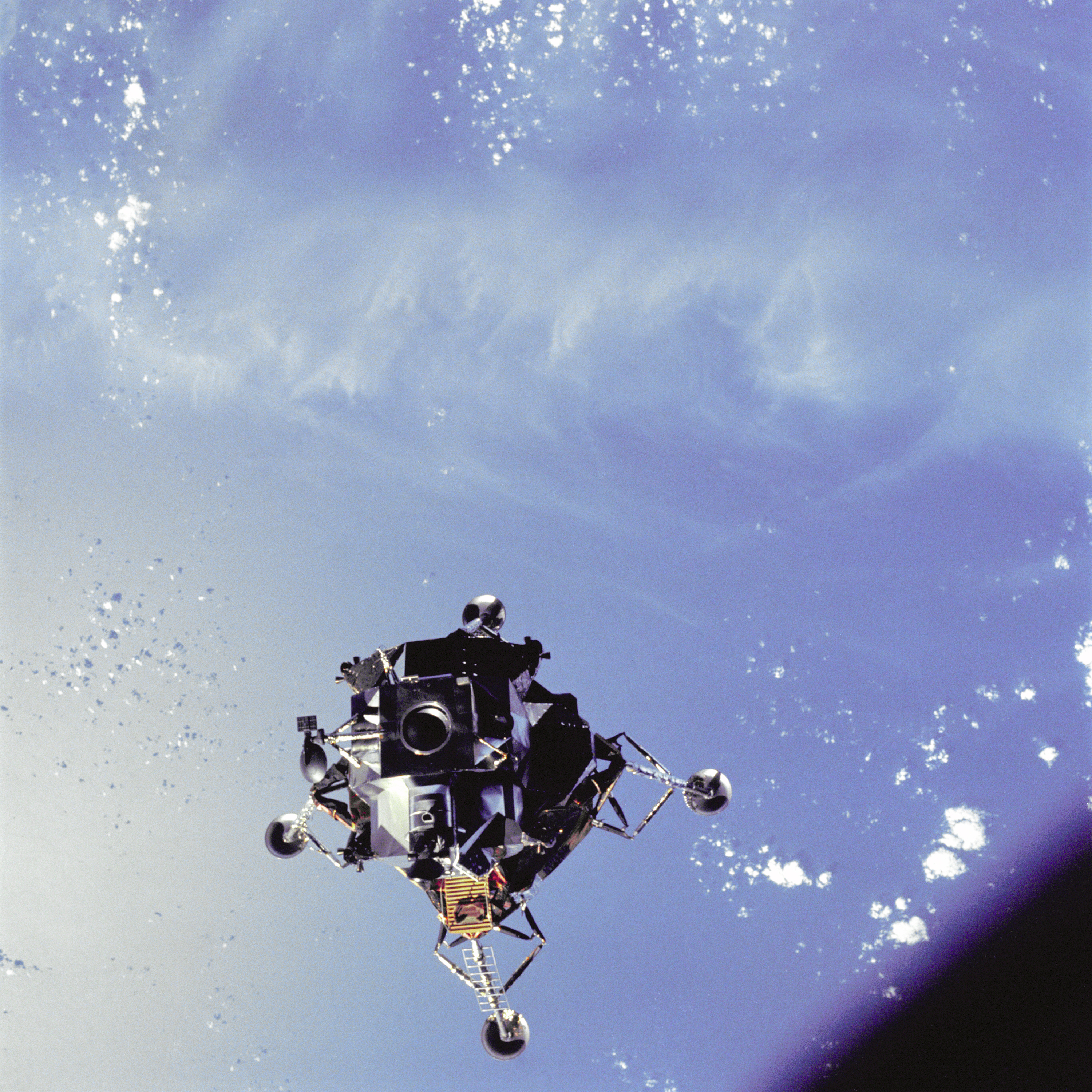 View of the Apollo 9 Lunar Module "Spider," in a lunar landing configuration, as photographed form the Command/Service Module on the fifth day of the Apollo 9 earth-orbital mission. The landing gear on the Lunar Module has been deployed. Note Lunar Module's upper hatch and docking tunnel. The EVA foot restraints known as the "Golden Slippers" are visible on the porch of the Lunar Module (LM). They allowed Lunar Module pilot Russell "Rusty" Schweickart to securely stand on the porch during his EVA thus allowing him free use of his hands.